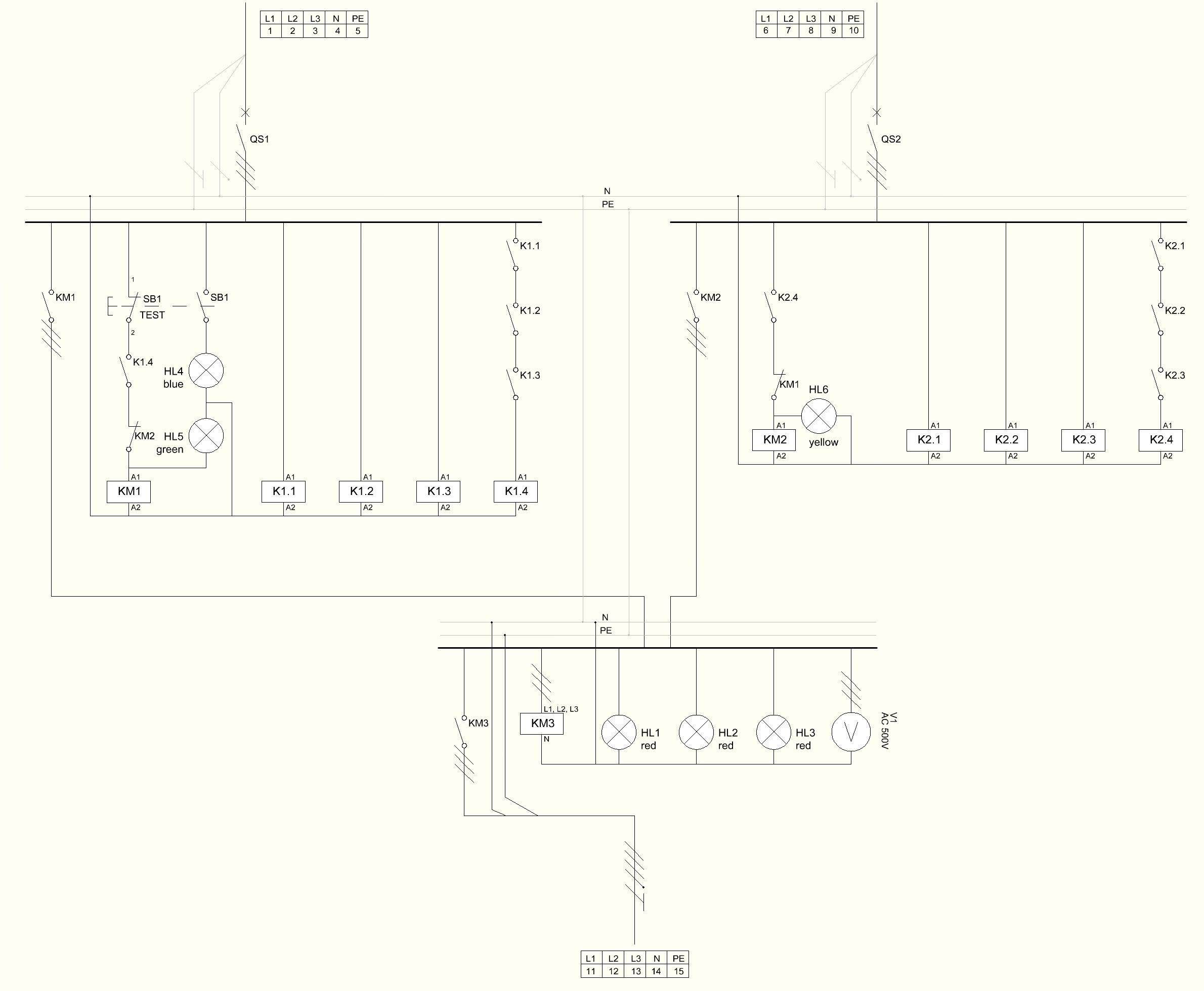 Wiring diagram of transfer switch; first it have been designed for elevator, but I've removed description of components to make this drawing more universal and suitable for education purposes.